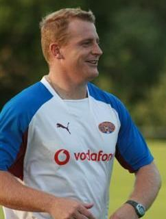 Brisbane Lions coach Michael Voss oversses pre-season training in December 2008.